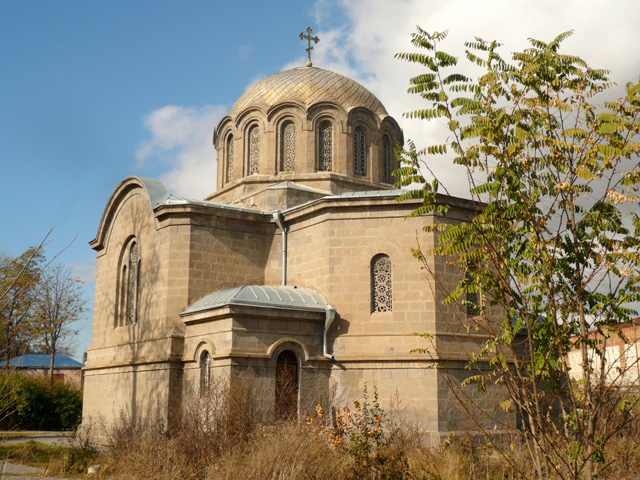 Russian church in Vanadzor.